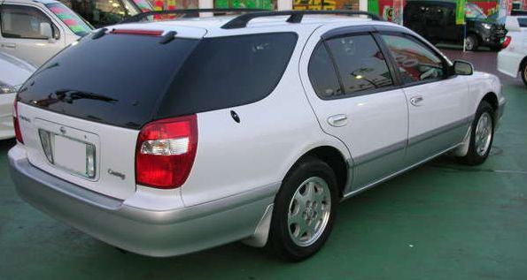 Nissan Cefiro station wagon.